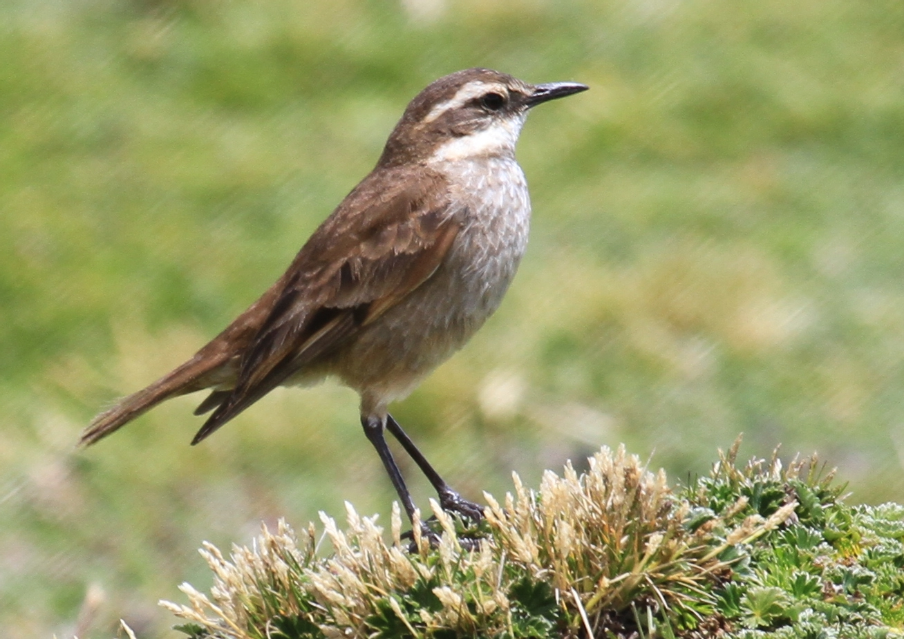 Antisana - Ecuador